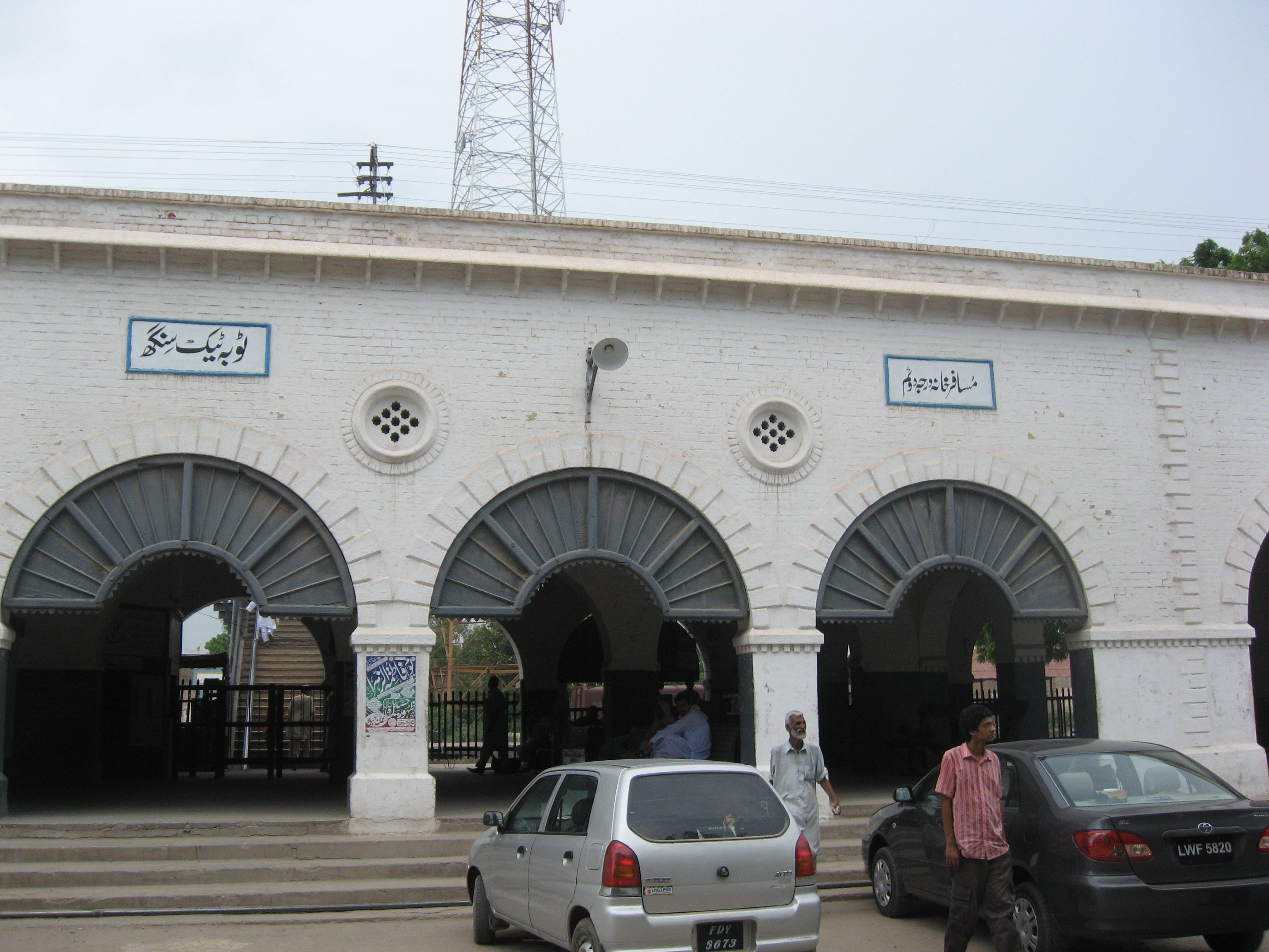 Toba Tek Singh Train Station